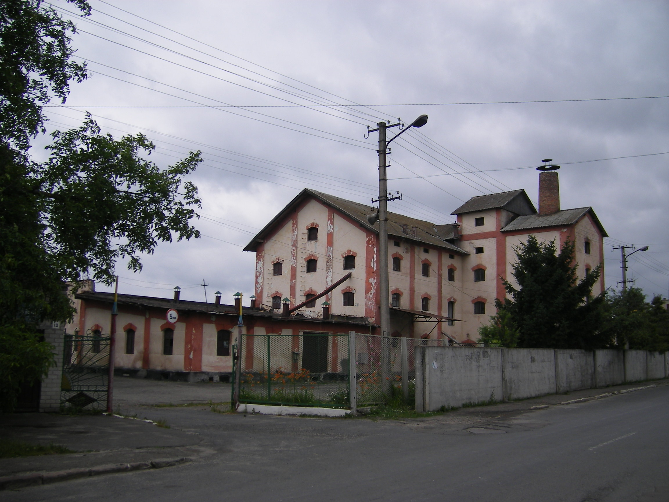 Radekhiv, old beer factory